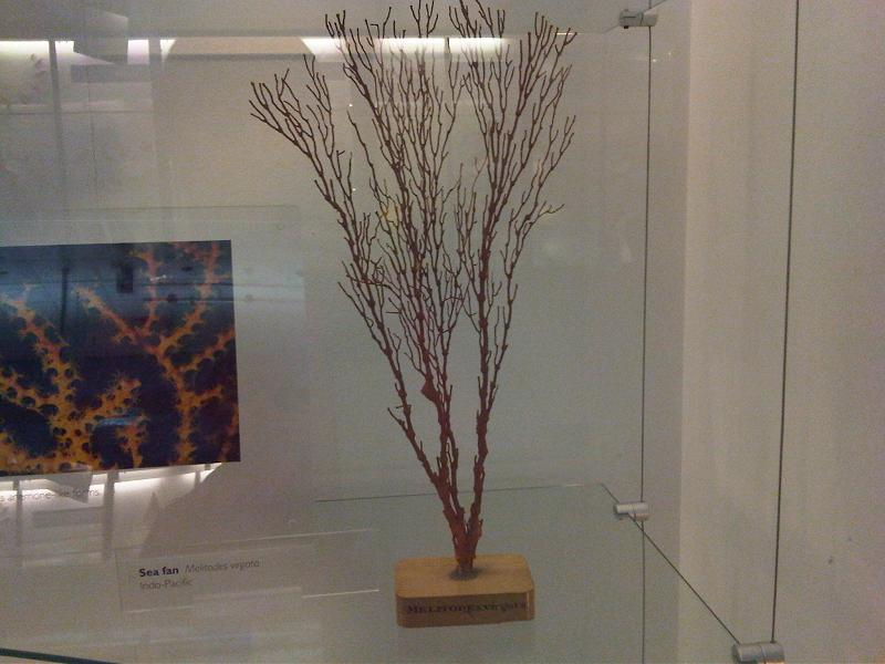 Melithaea virgata at the Natural History Museum in London, England.